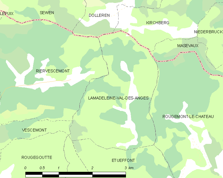 Map of French municipality Lamadeleine-Val-des-Anges